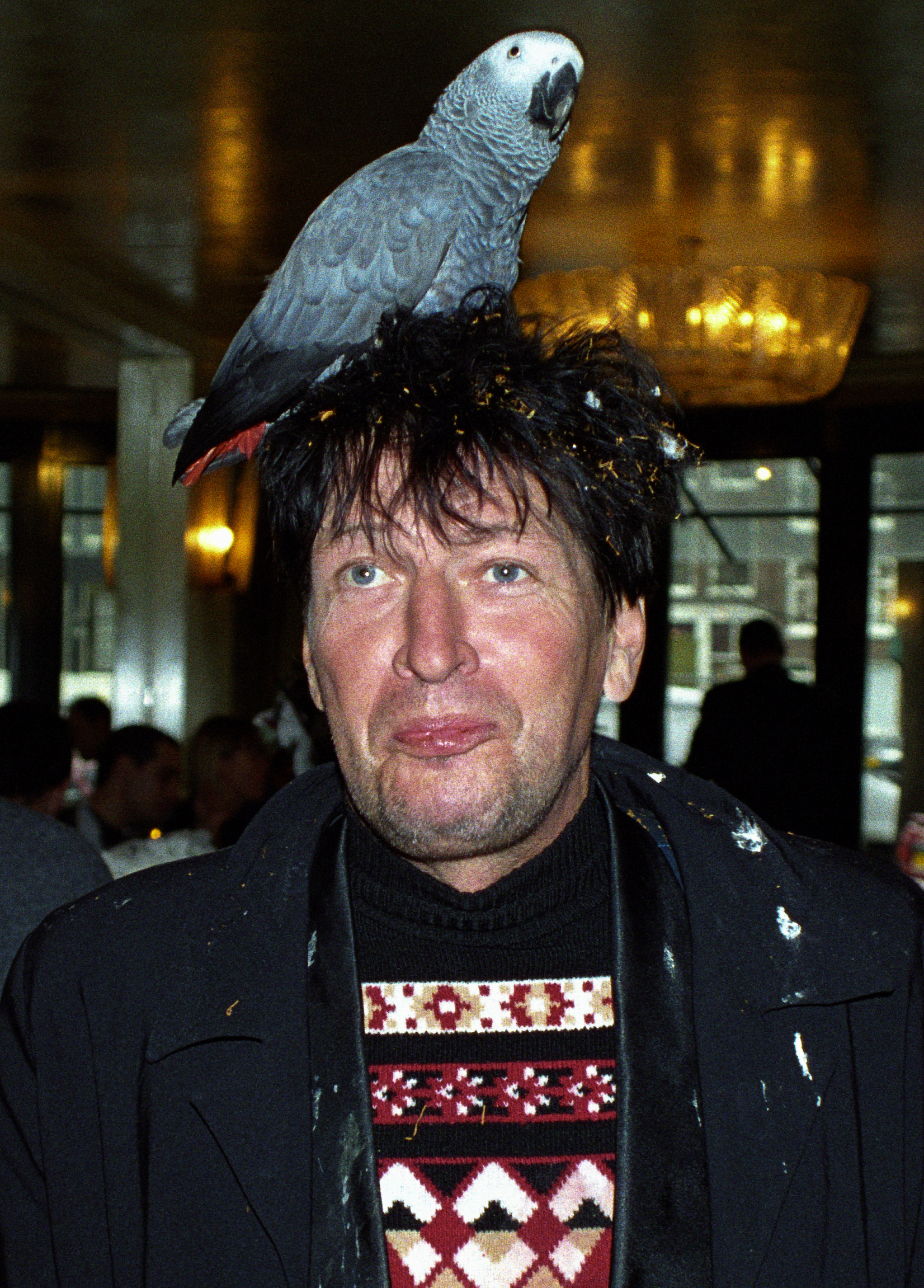 Herman Brood, Rotterdam